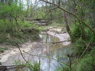 A wooded creek (headwaters of Casey Creek in Illinois USA)